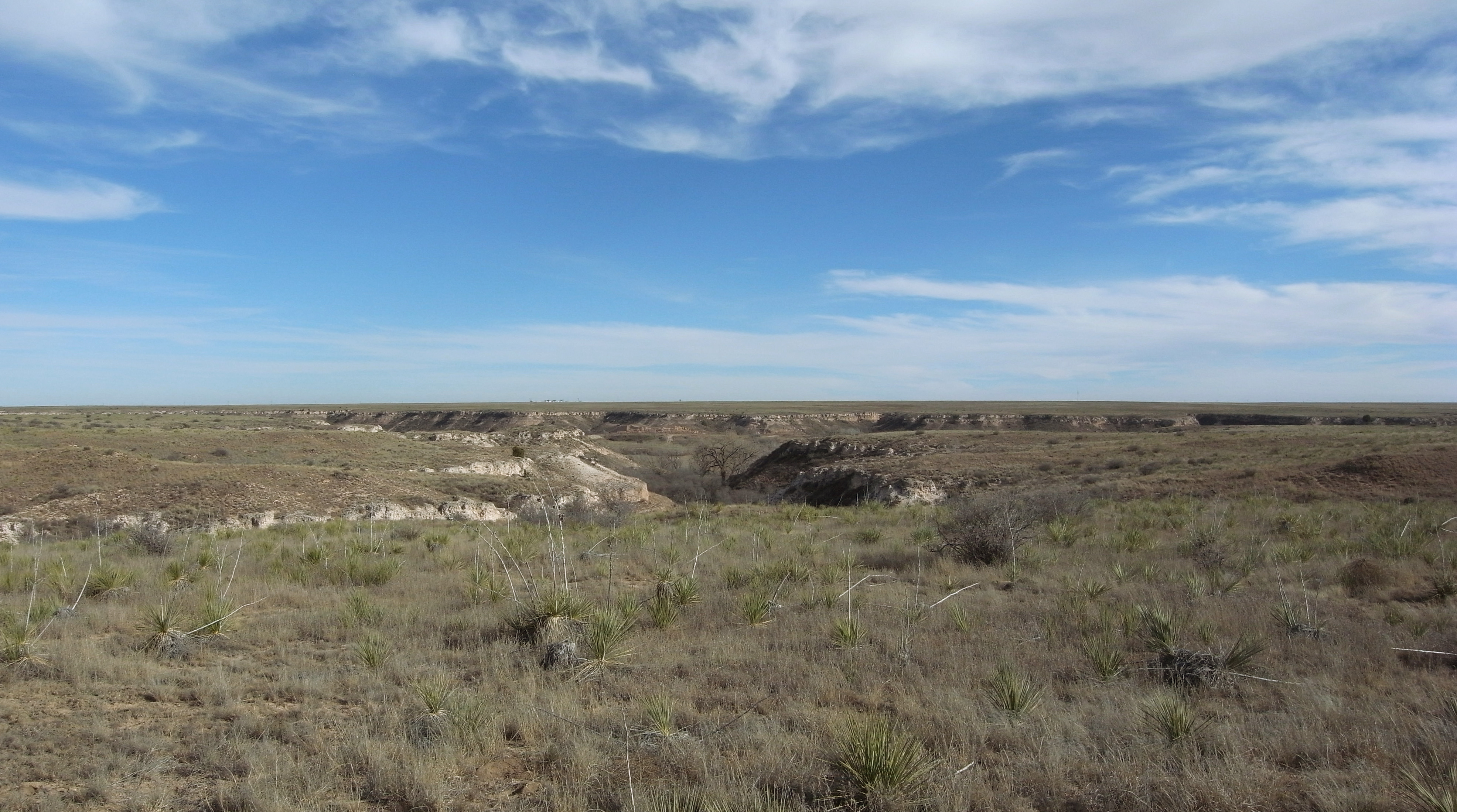 A canyon carved into the high plains by Tierra Blanca Creek, home of Buffalo Lake National Wildlife Refuge.